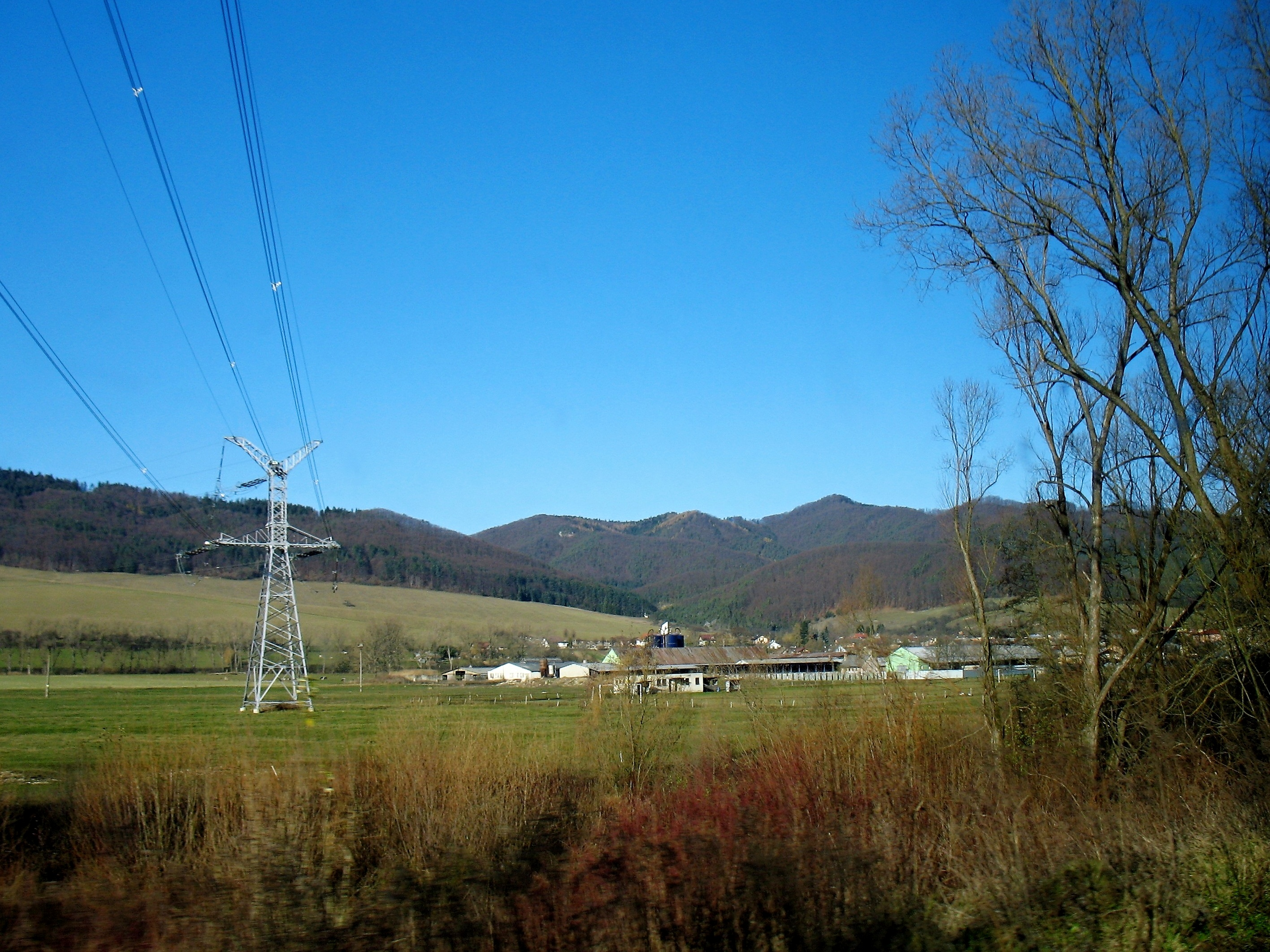 View of Jasenové, Žilina District, Slovakia